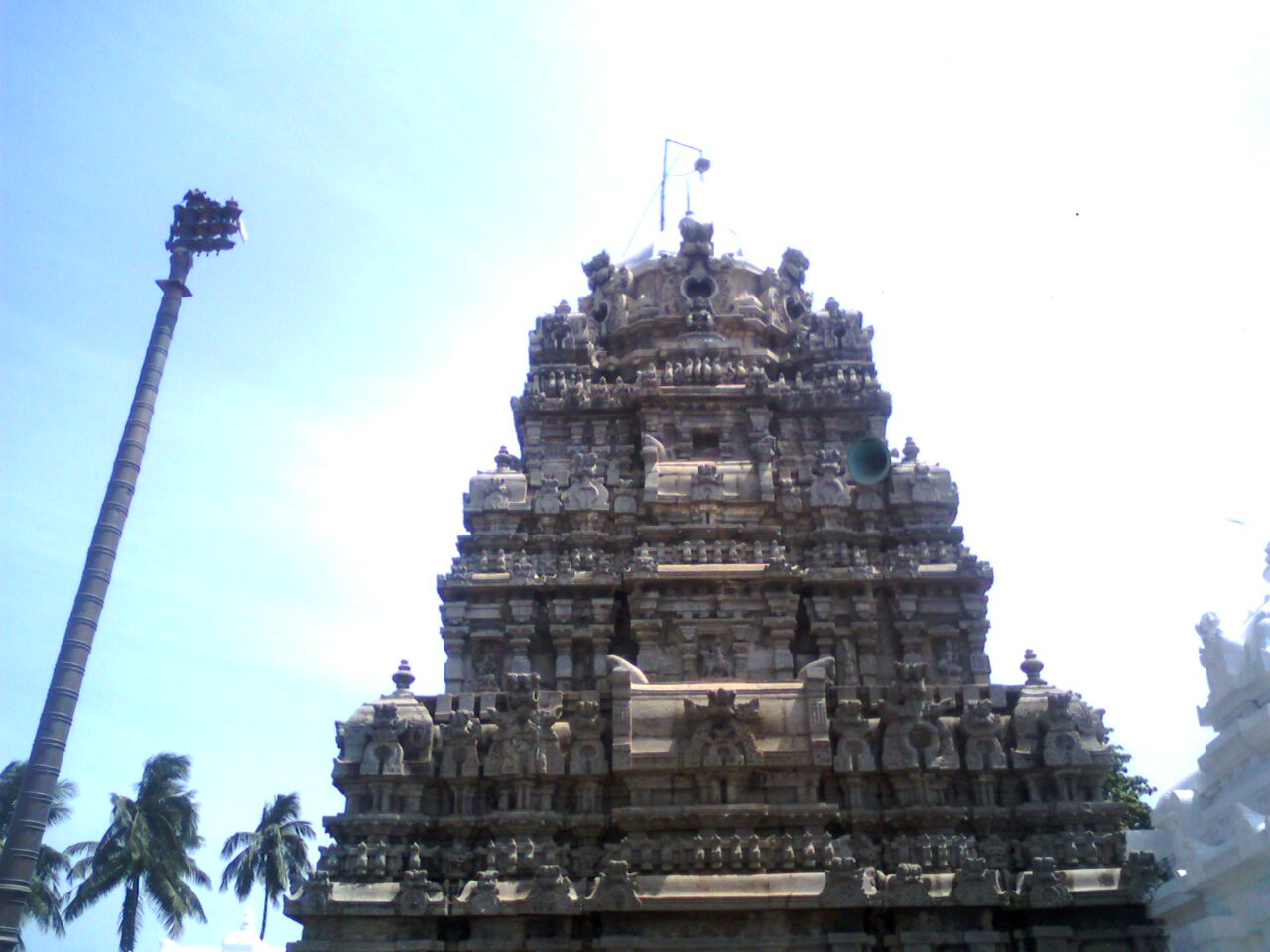 Srikurmam temple near Srikakulam, Andhra Pradesh